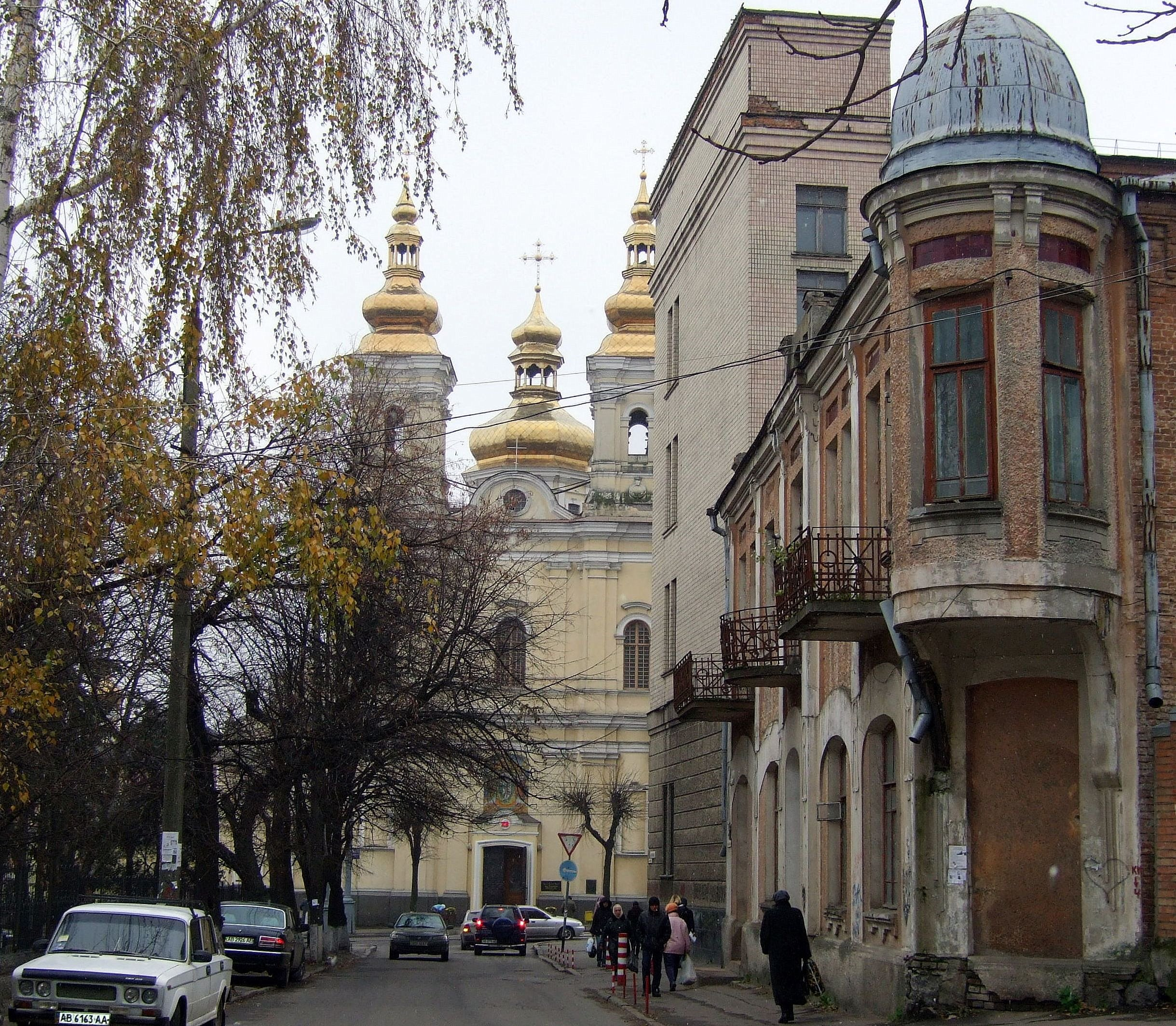 Mykhalychenko street, view on orthodox cathedral, Vinnytsia, Ukraine.